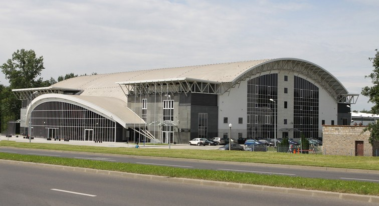 Sport Hall of Jastrzębie-Zdrój